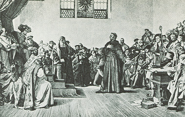 Luther Before the Diet of Worms, photogravure after the historicist painting by Anton von Werner (1843-1915) in the Staatsgalerie Stuttgart.